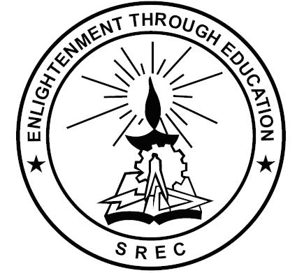 sssssss